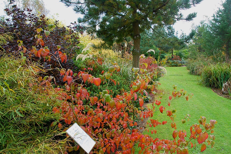 Bluebell Arboretum, England, in Autumn, showing educational sign.